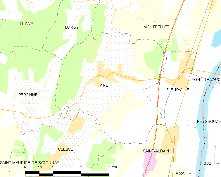 Map of French municipality